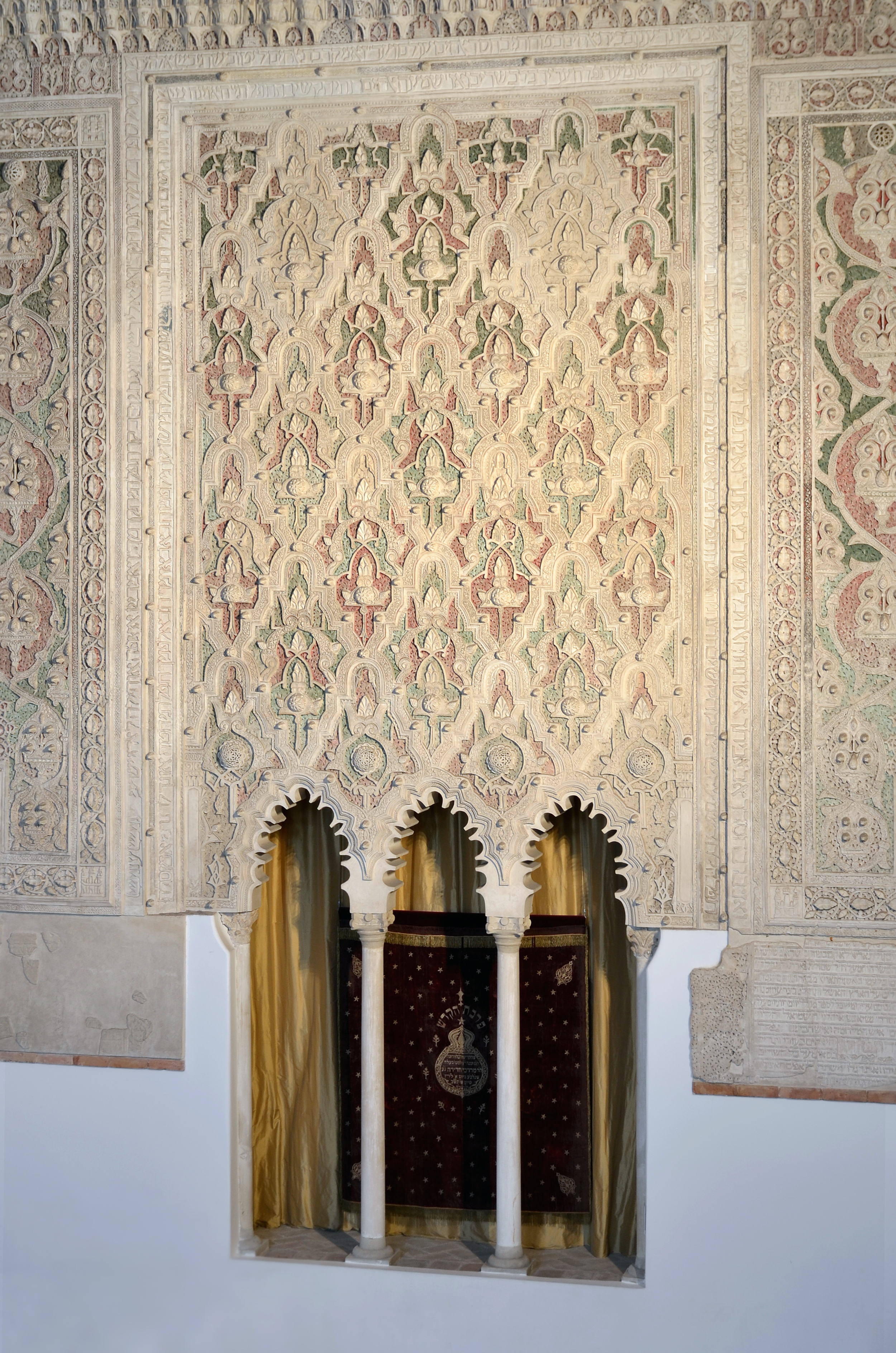 Torah ark of Synagogue of El Transito - Toledo, Spain